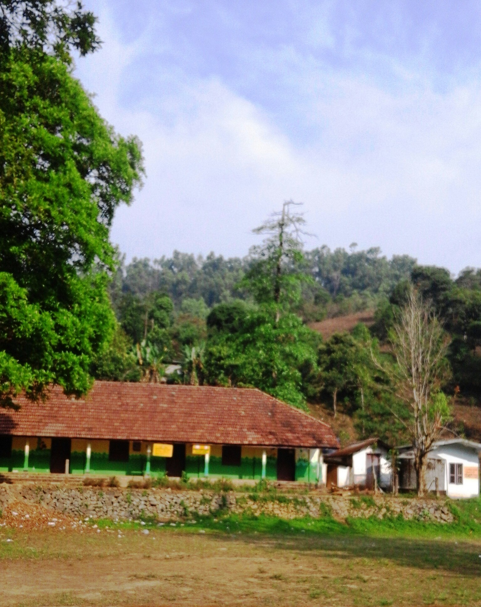 The oldest school in Lakkidi, the entrance to the Wayanad District